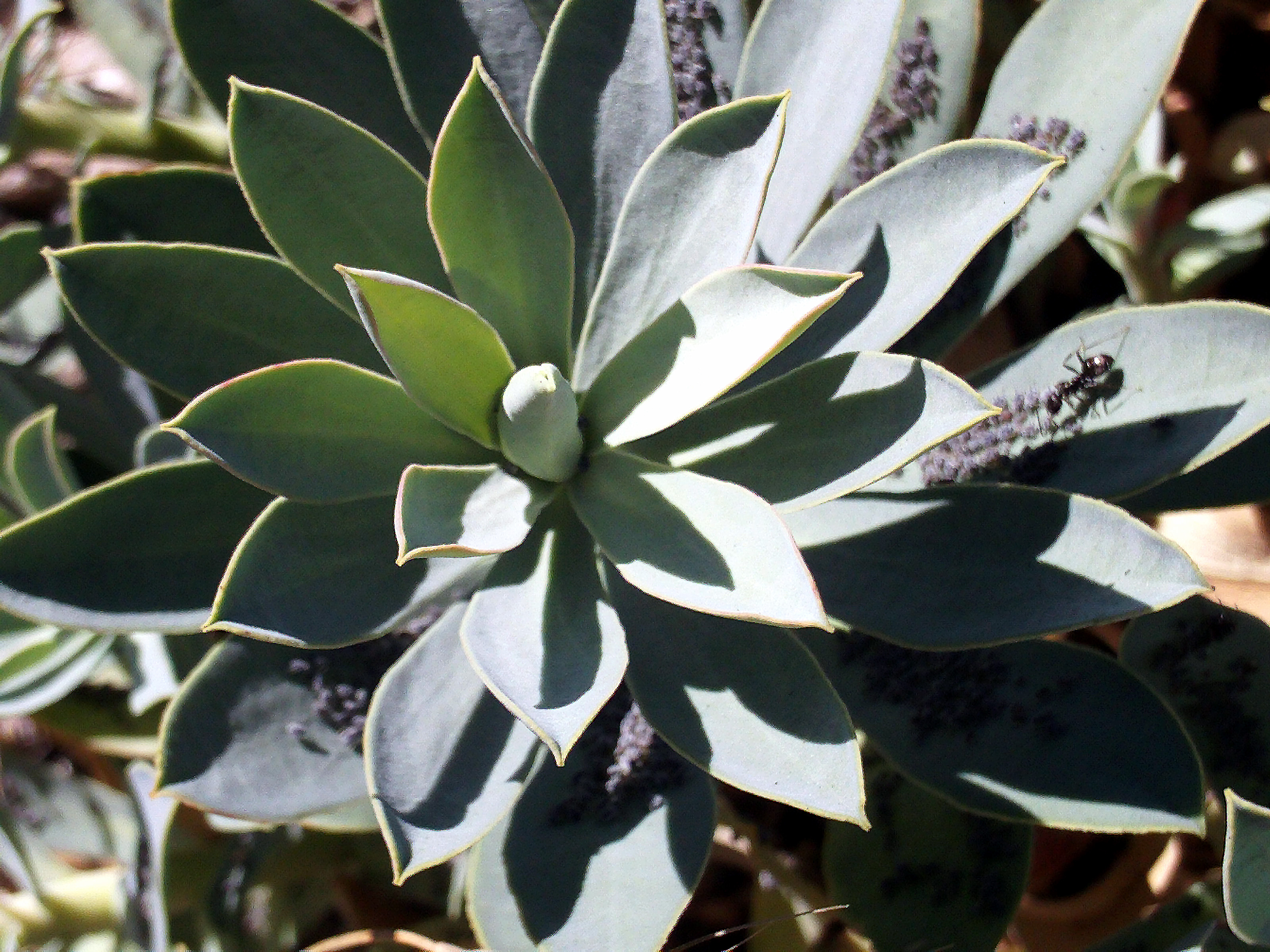 Euphorbia nevadensis folial rosette, Sierra Nevada, Spain